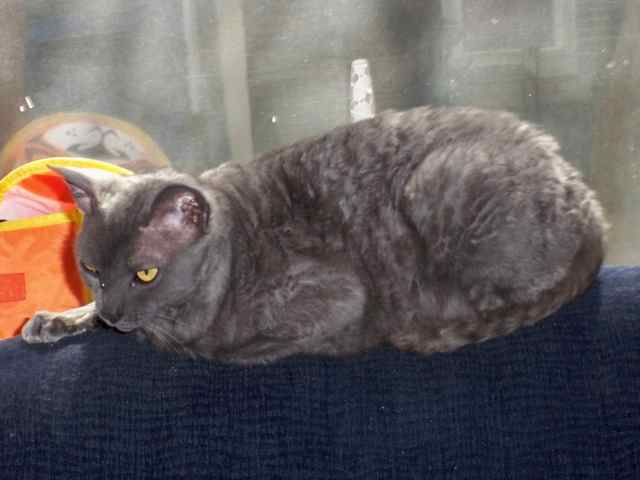 Sophie is a rex cat, a mutation with with curly fur.